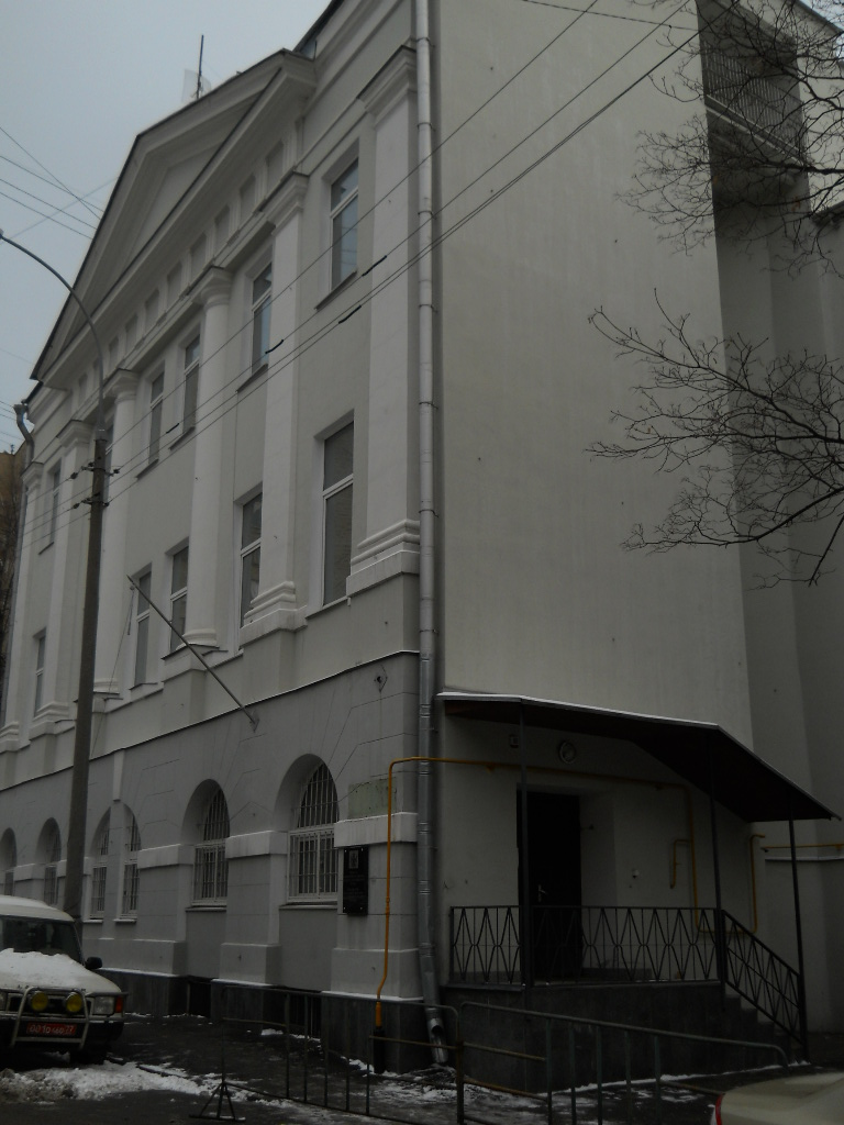 Moscow, Serpov Lane, 4.